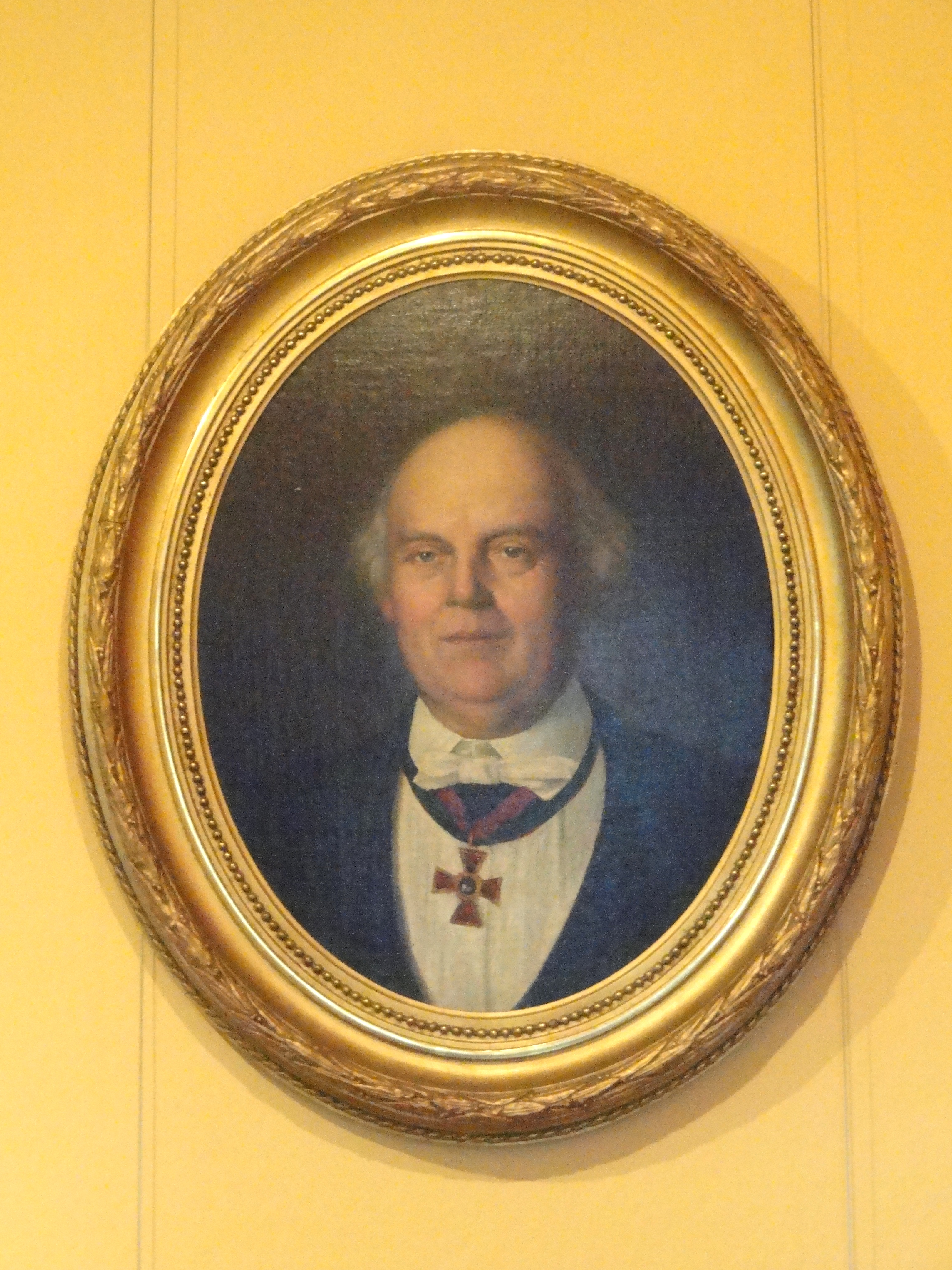 Painting in the Cygnaeus Gallery, Helsinki, Finland. Artwork is in the public domain because the artist died more than 70 years ago.